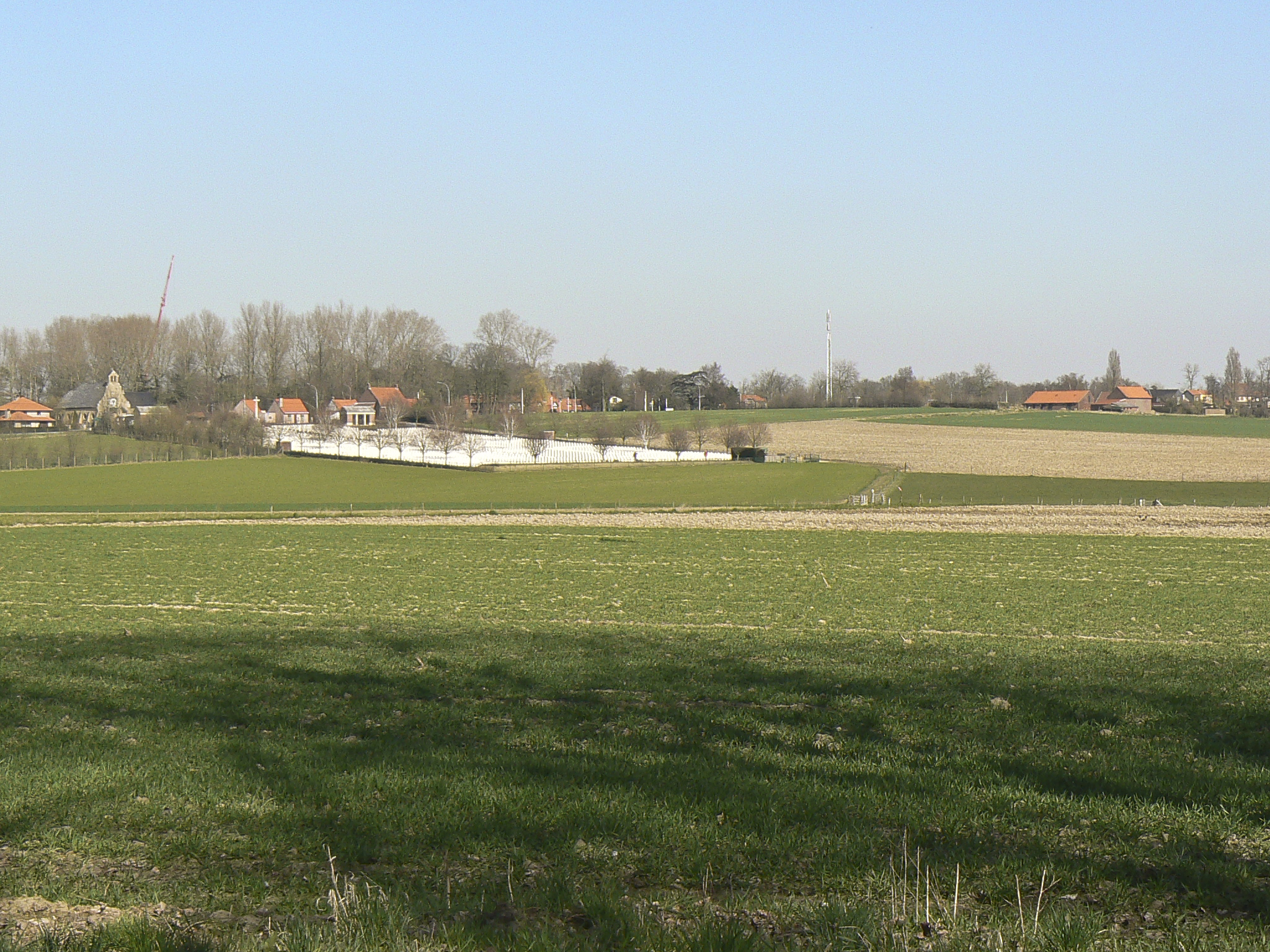 Hooge Crater Cemetery. Panorama.